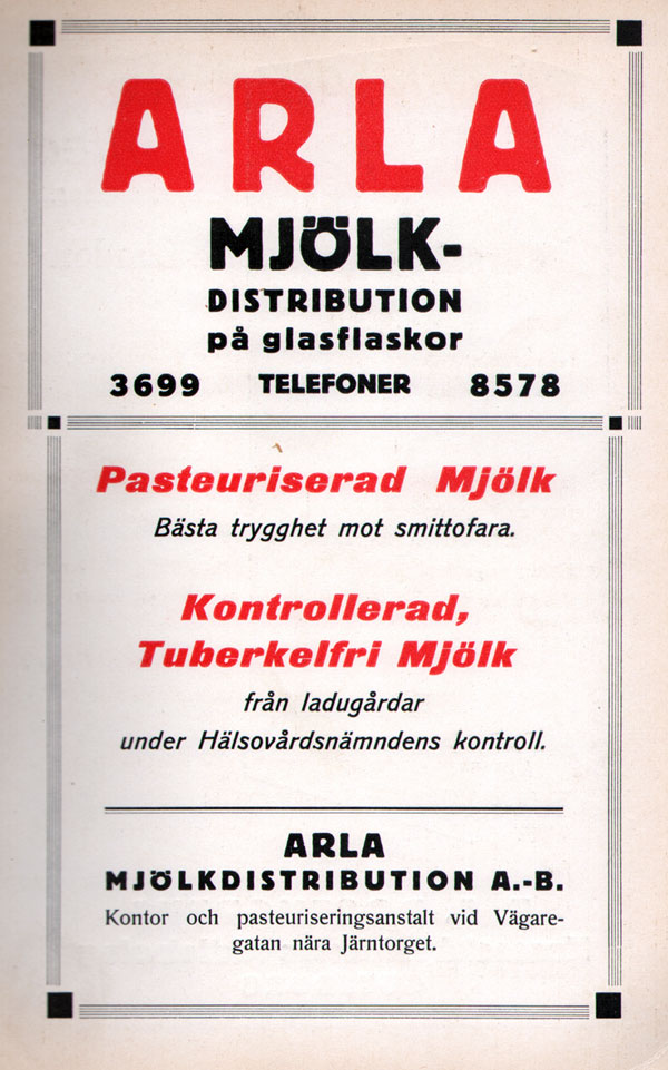 Advertisement for Arla. A dairy distributor located in Gothenburg, Sweden